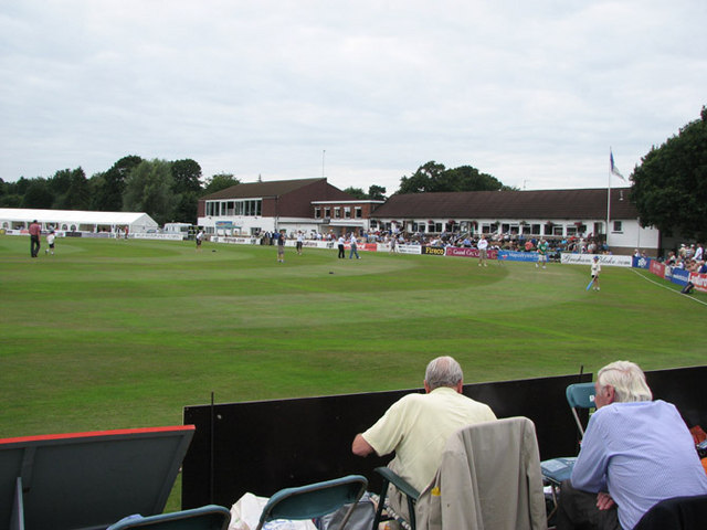 Horsham Cricket Club Pavilion During the lunch interval on the first day of the Sussex-Notts match.